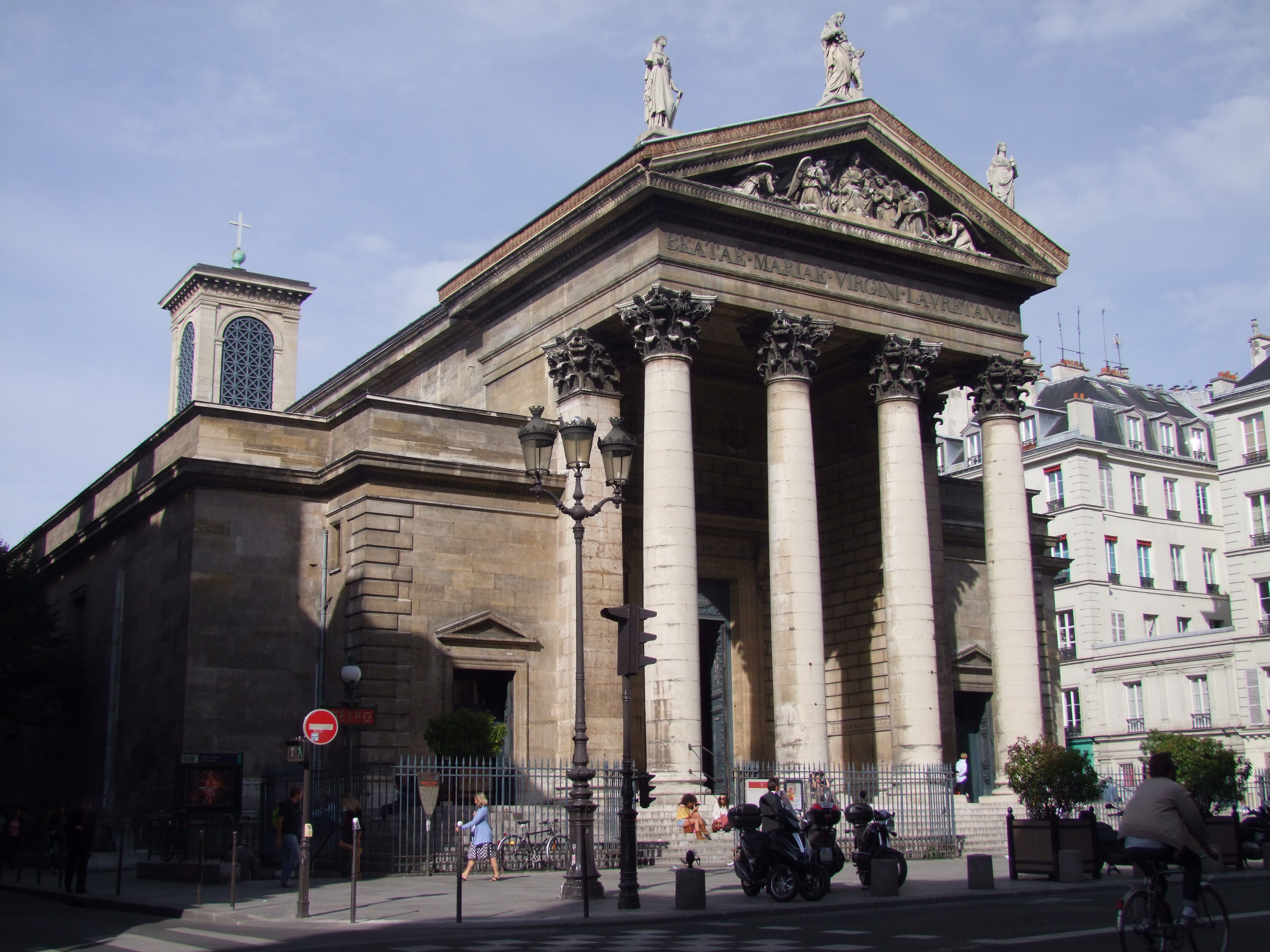 Church Notre-Dame-de-Lorette, Paris (south façade)